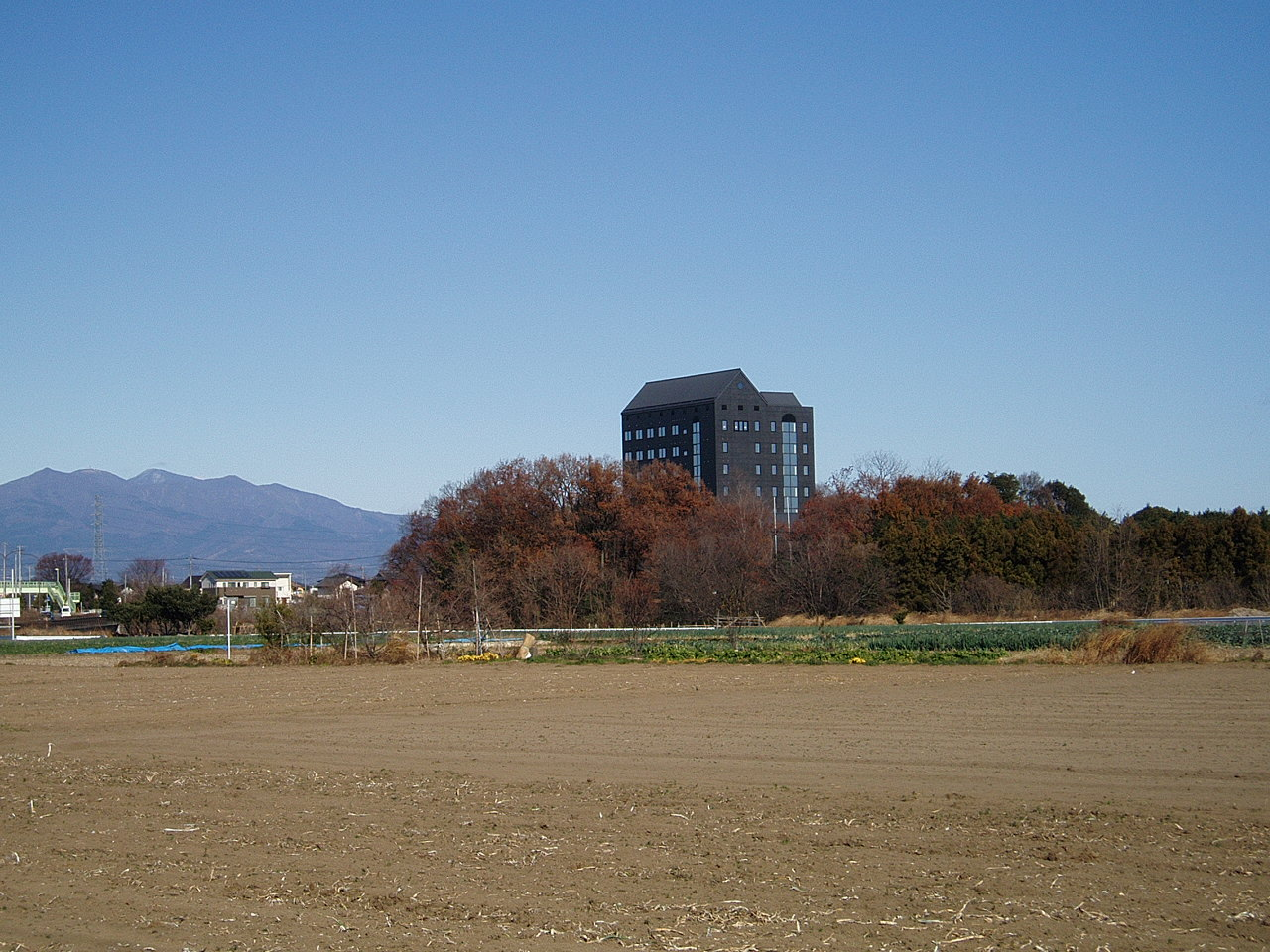 Mount Akagi (left) and Shimotaki Campus (right), the University of Creation; Art, Music & Social Work (Souzou Gakuen University), viewed from south.